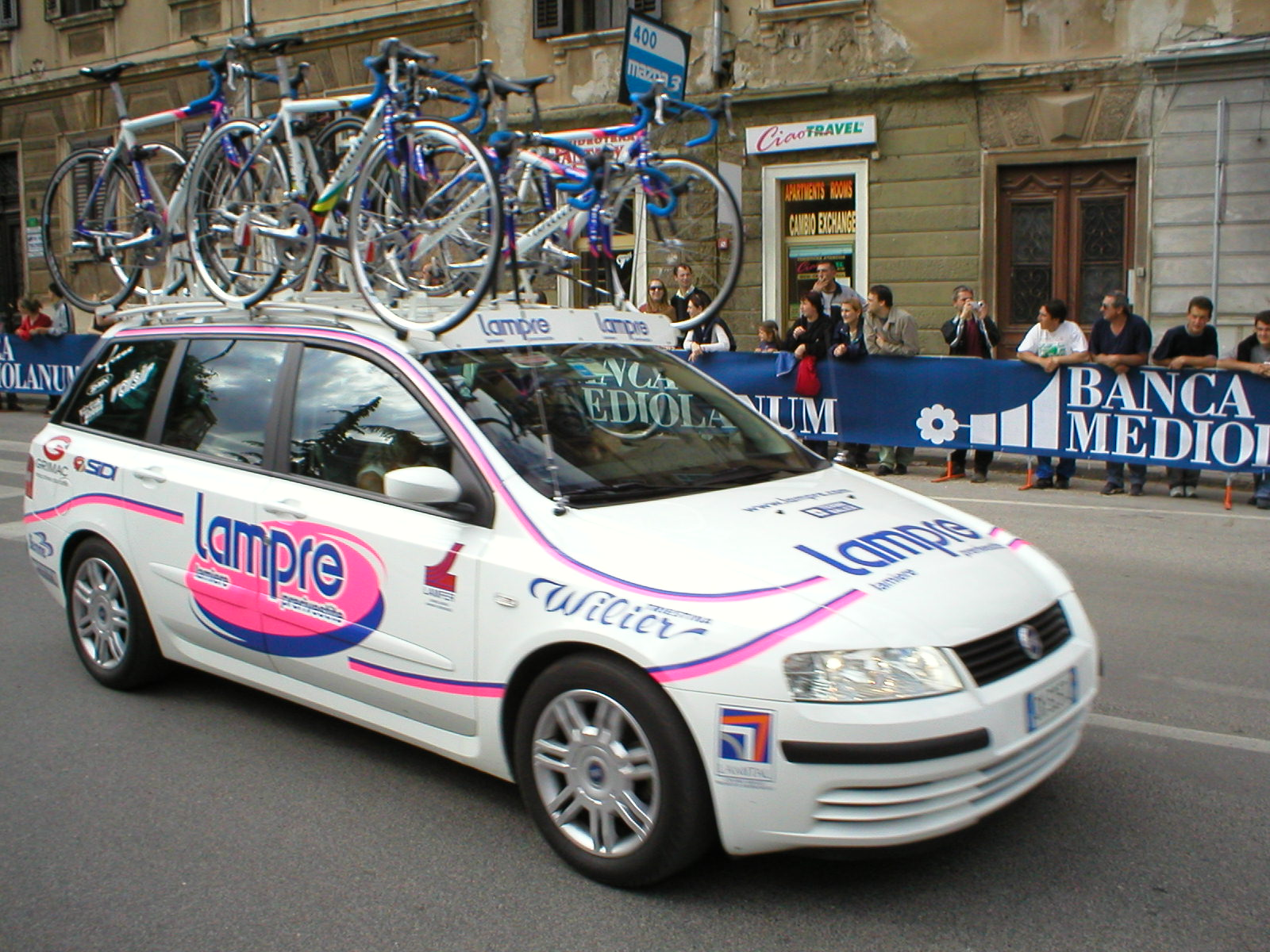 The 87th Giro d'Italia in Pula, Croatia